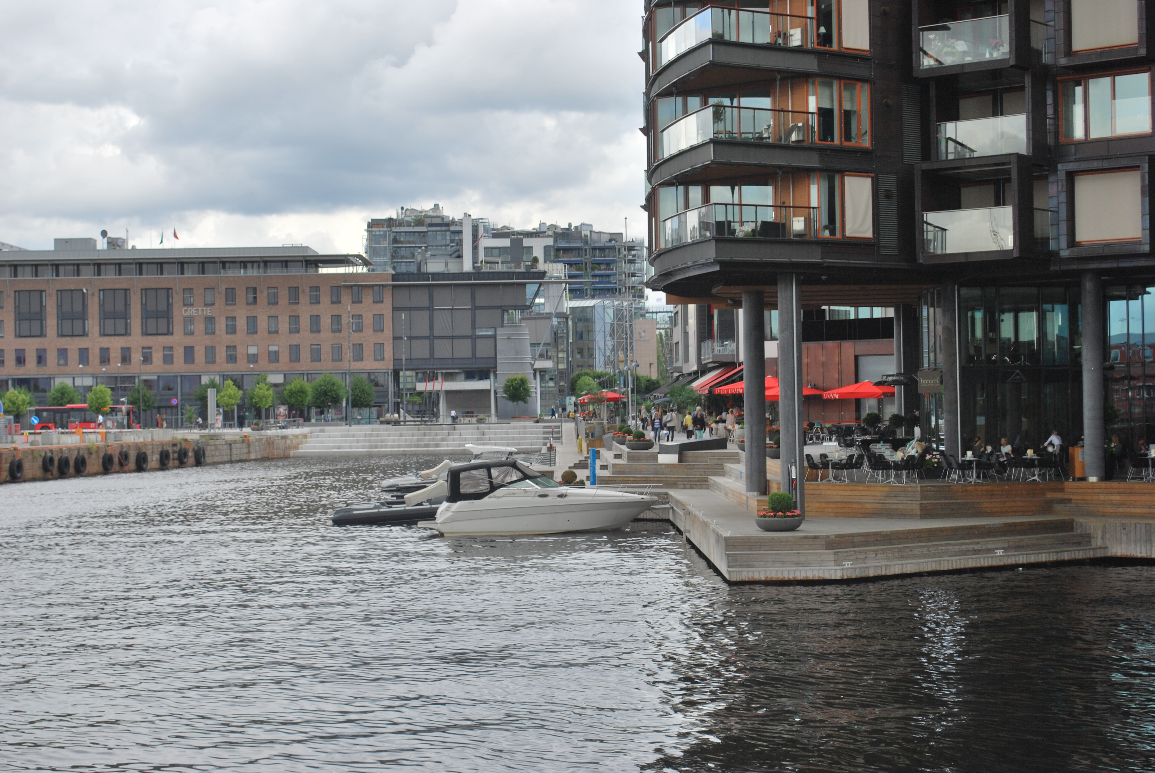 Tjuvholmen neighborhood, Bryggegangen street, seen from Holmen. Filipstad brygge in the background